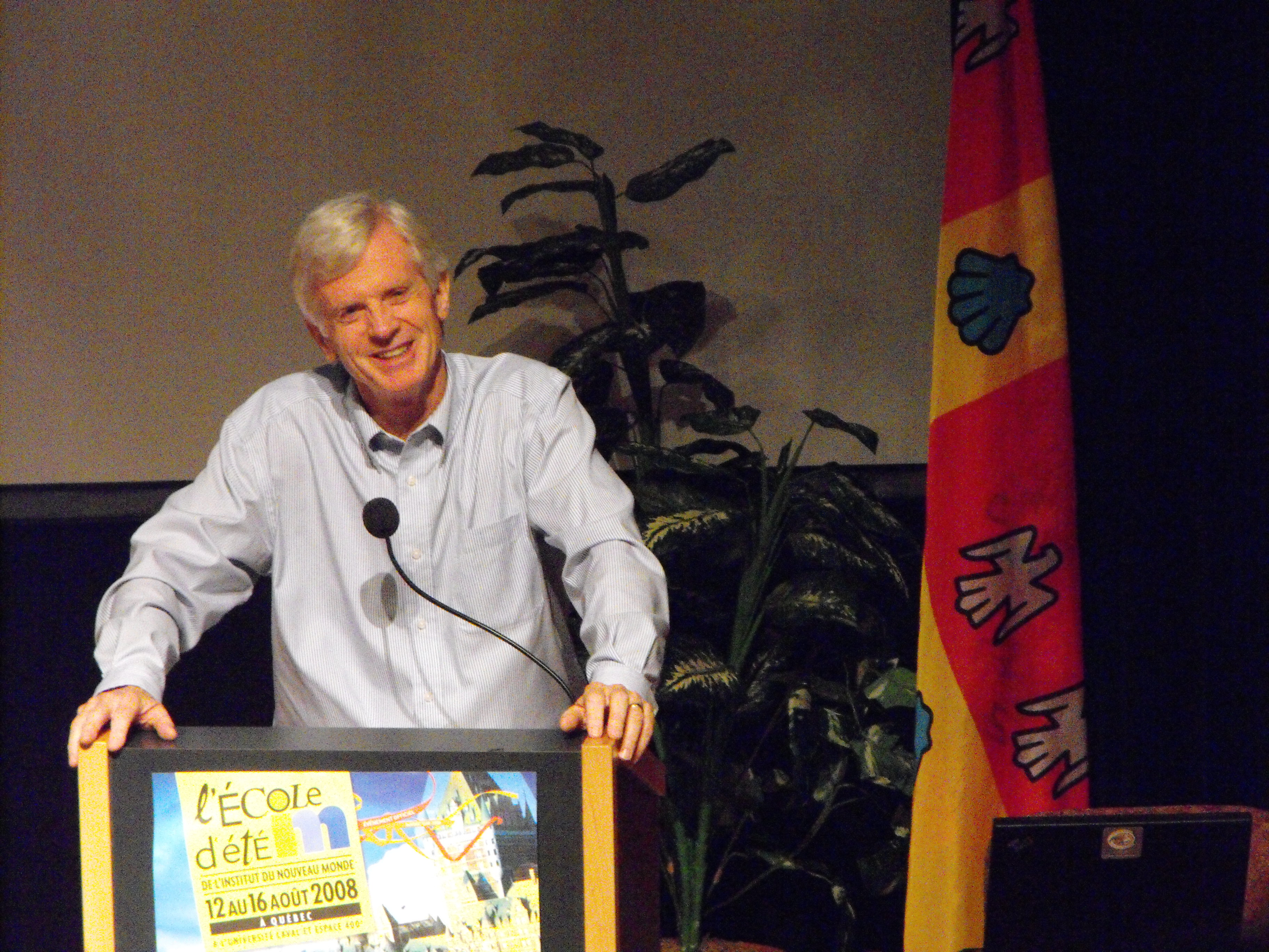 The upholder of human rights and former canadian politician David Kilgour.